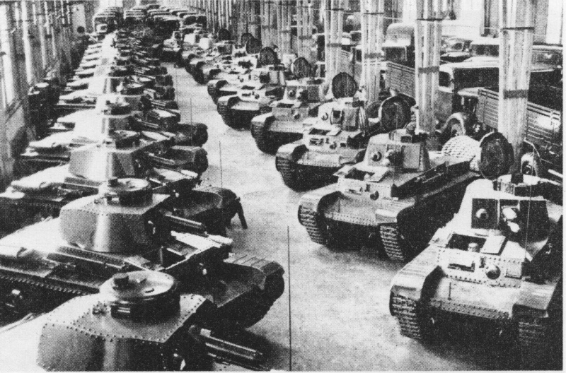 Czechoslovak military equipment